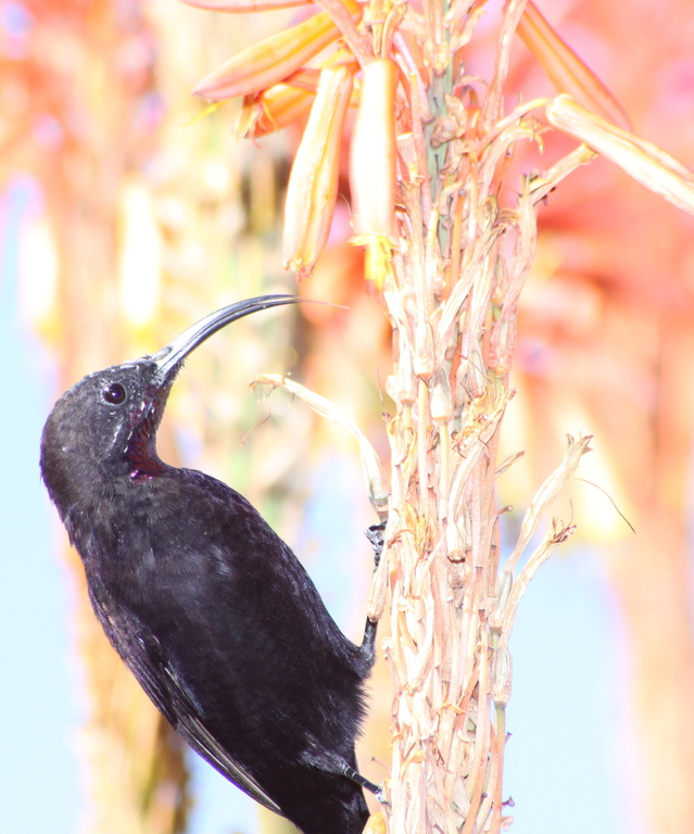 Chalcomitra amethystina Pictures taken at a patch of aloes visitied by amethyst sunbirds and other creatures.